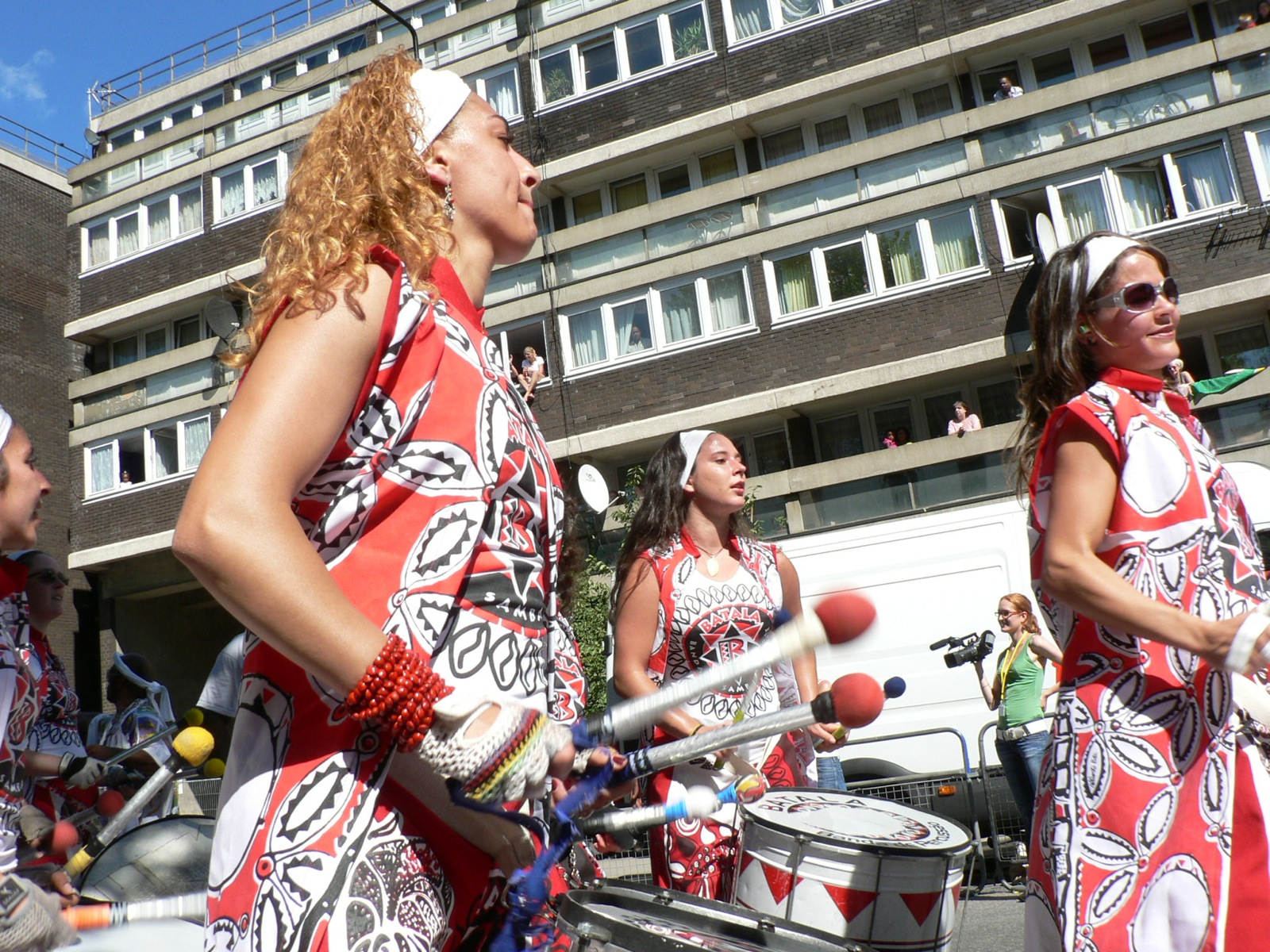 Notting Hill Carnival 2005 (London, UK)